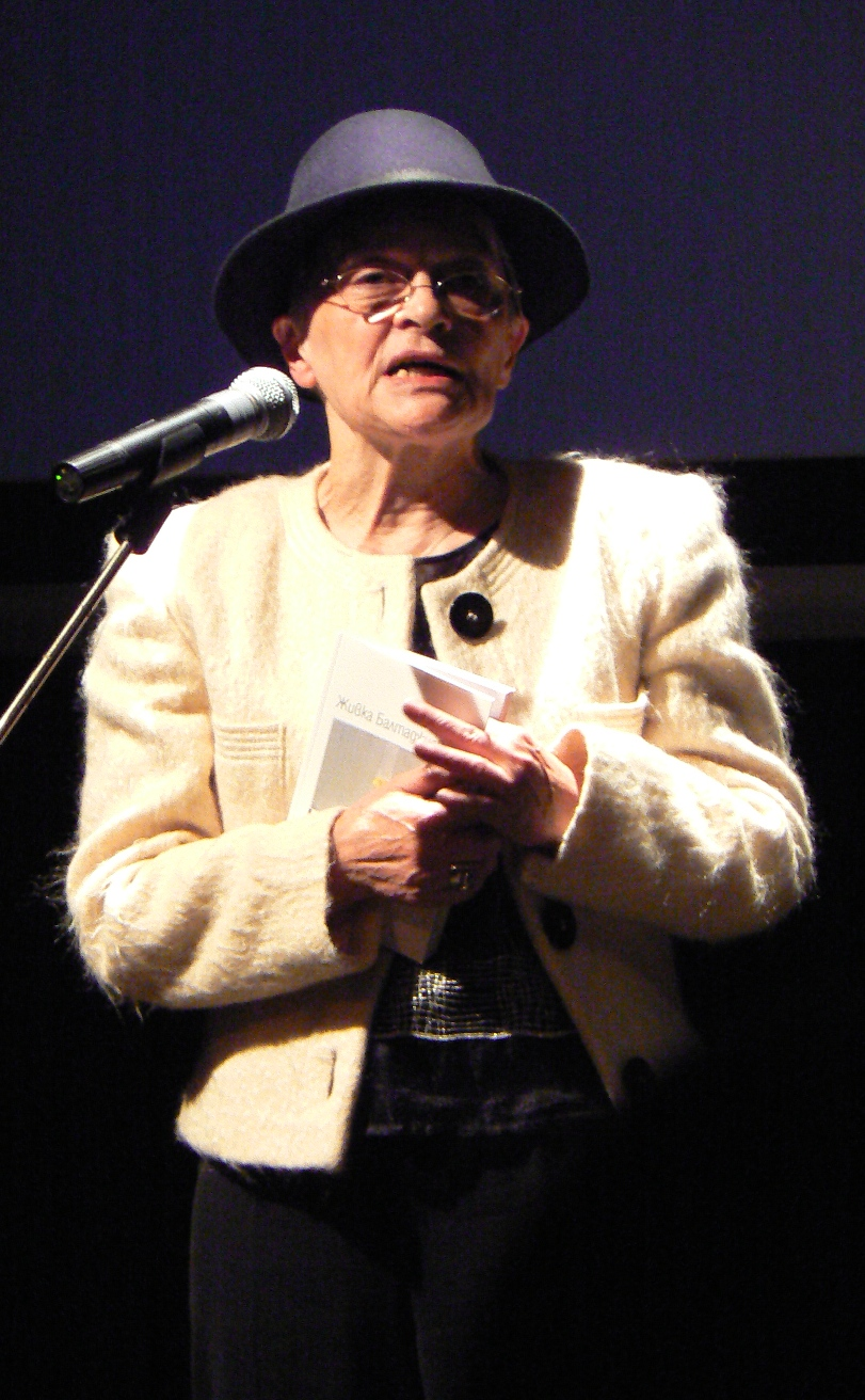 Bulgarian poet Zhivka Baltadzhieva